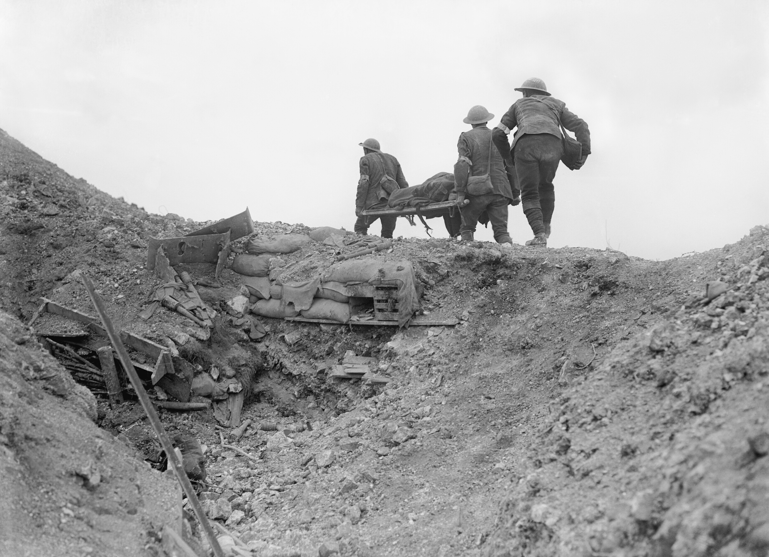 British stretcher bearers recovering a wounded soldier from a captured German trench during the Battle of Thiepval Ridge, late September 1916, part of the Battle of the Somme.